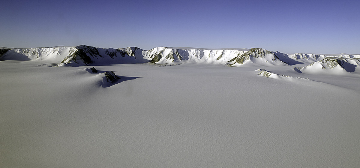 The Shackleton Range, seen here on Oct. 21, 2011, juts out of the ice sheet between Slessor and Recovery glaciers. Credit: Michael Studinger/NASA